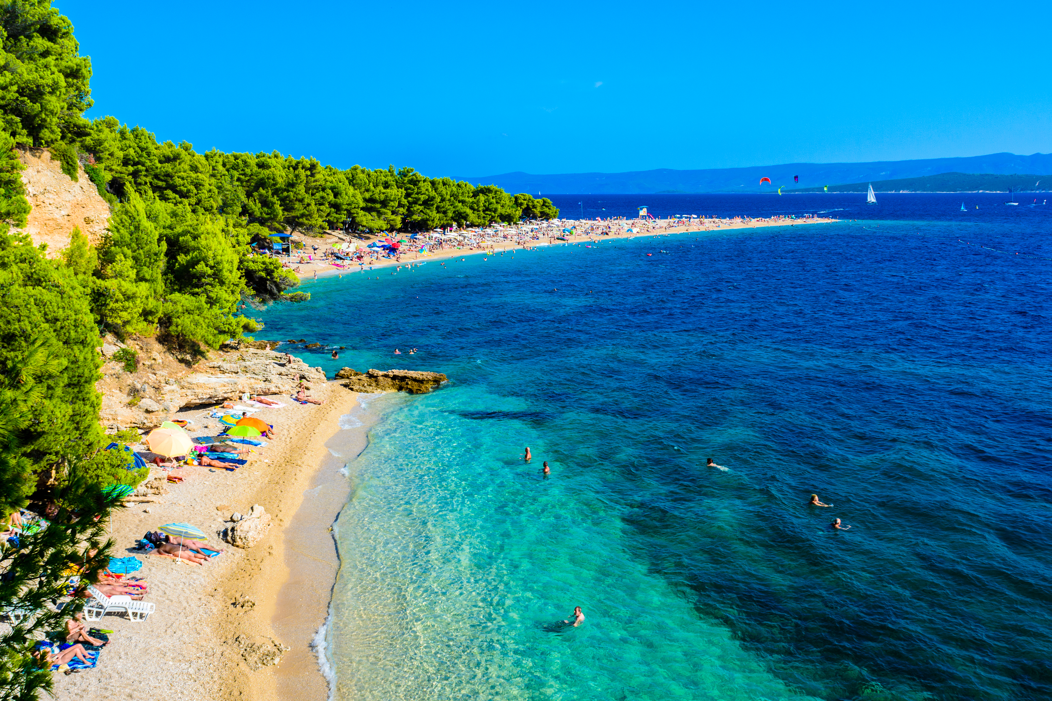 Island Brac